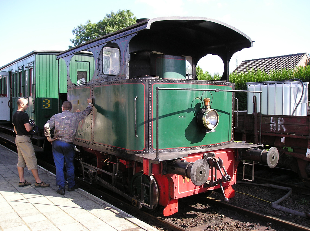 Now this locomotive belongs to Dendermonde-Puurs heritage railway in Belgium. This photo though was taken on Dendermonde-Puurs steam railway during "weekend of the train" happening on September 17 and 18, 2005.